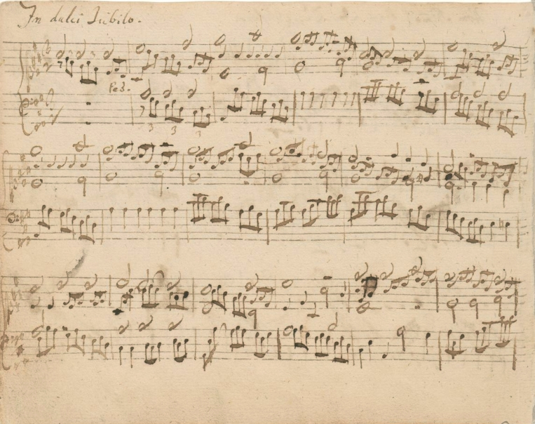 Photograph of 1st autograph page of In Dulci Jubilo, BWV 608, from Bach's Orgelbüchlein